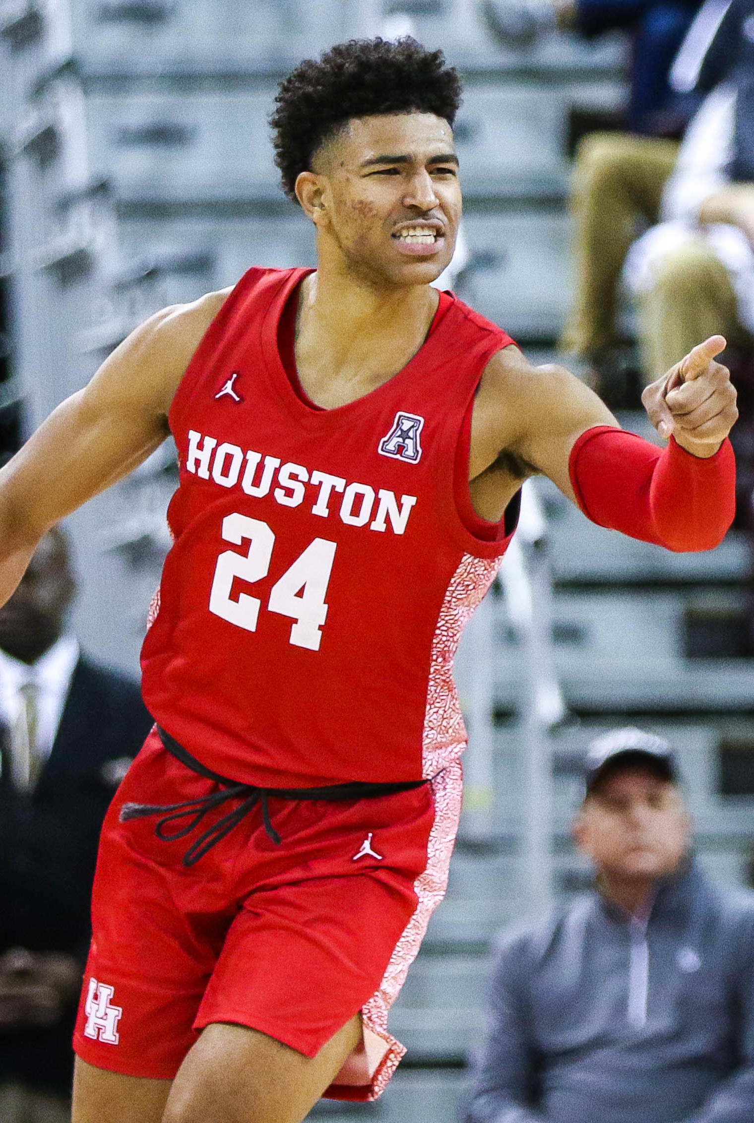 Photo by Katie Dugan